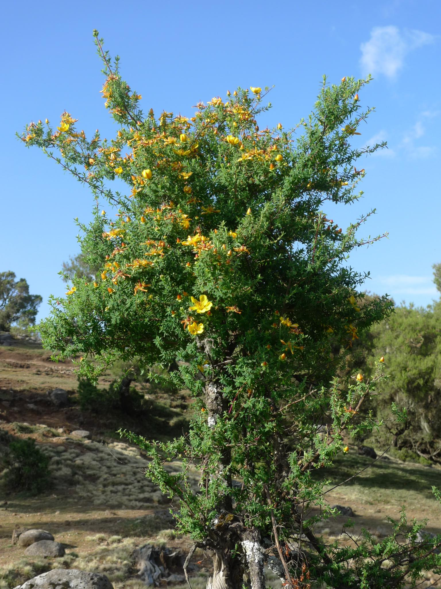 A shrubby species of St John's wort in the Semien Mountains, Ethiopia, at about 3300m altitude.